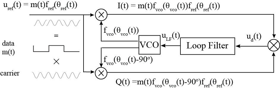 New higher-quality version of Costas loop model in signal space